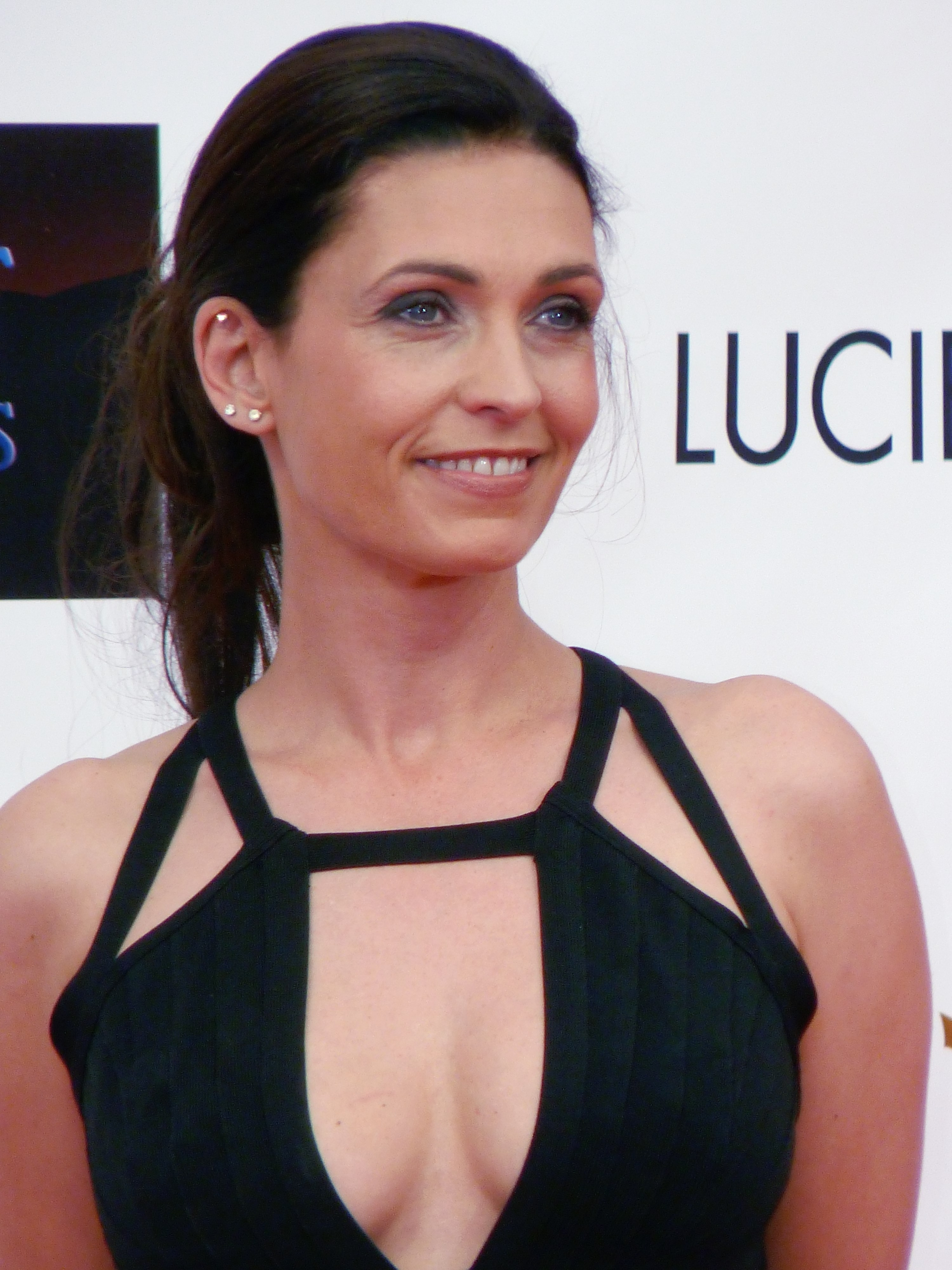 Adeline Blondieau at the 2012 Monte-Carlo Television Festival.